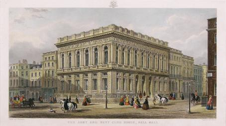 Hand-coloured engraving of The Army and Navy Club, Pall Mall, London